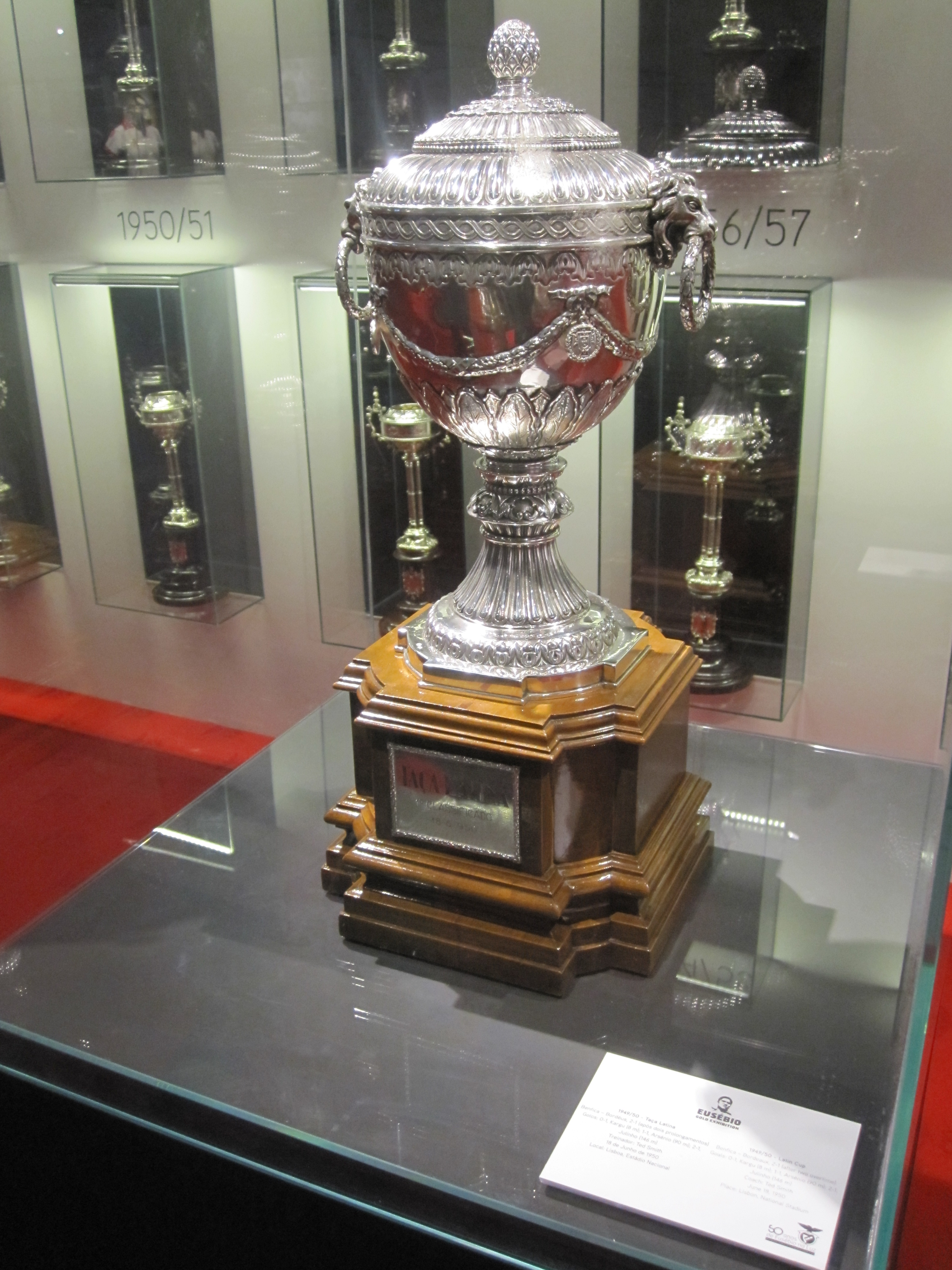 Photo of the Latin Cup won by Benfica in 1950